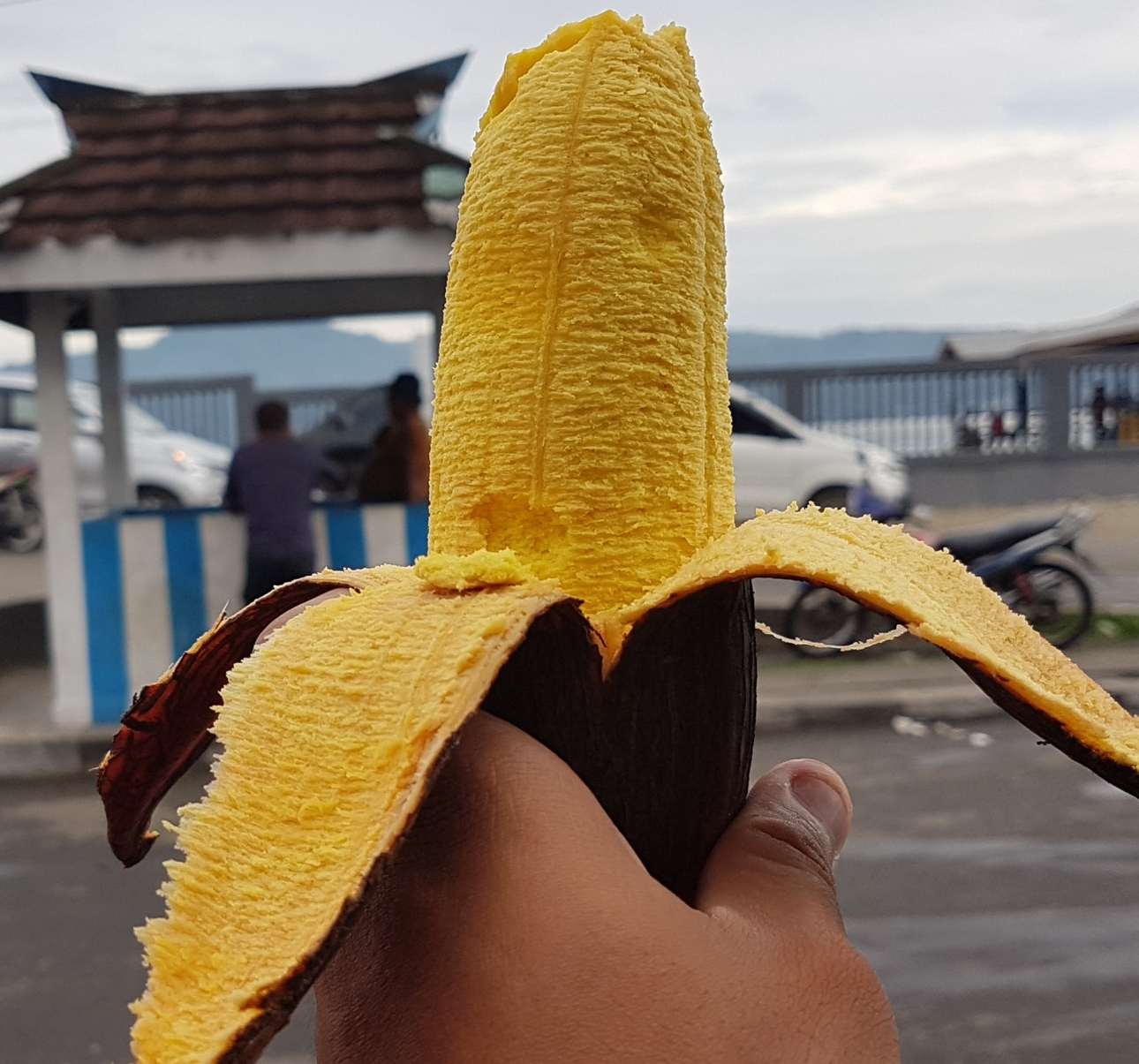 'Pisang Tongkat Langit' (Musa troglodytarum peeled)